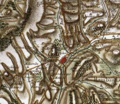 Cassini's map; end of 18th century. Area of Gap - Hautes-Alpes, France